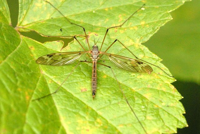 Tipula unca from Commanster, Belgian High Ardennes .